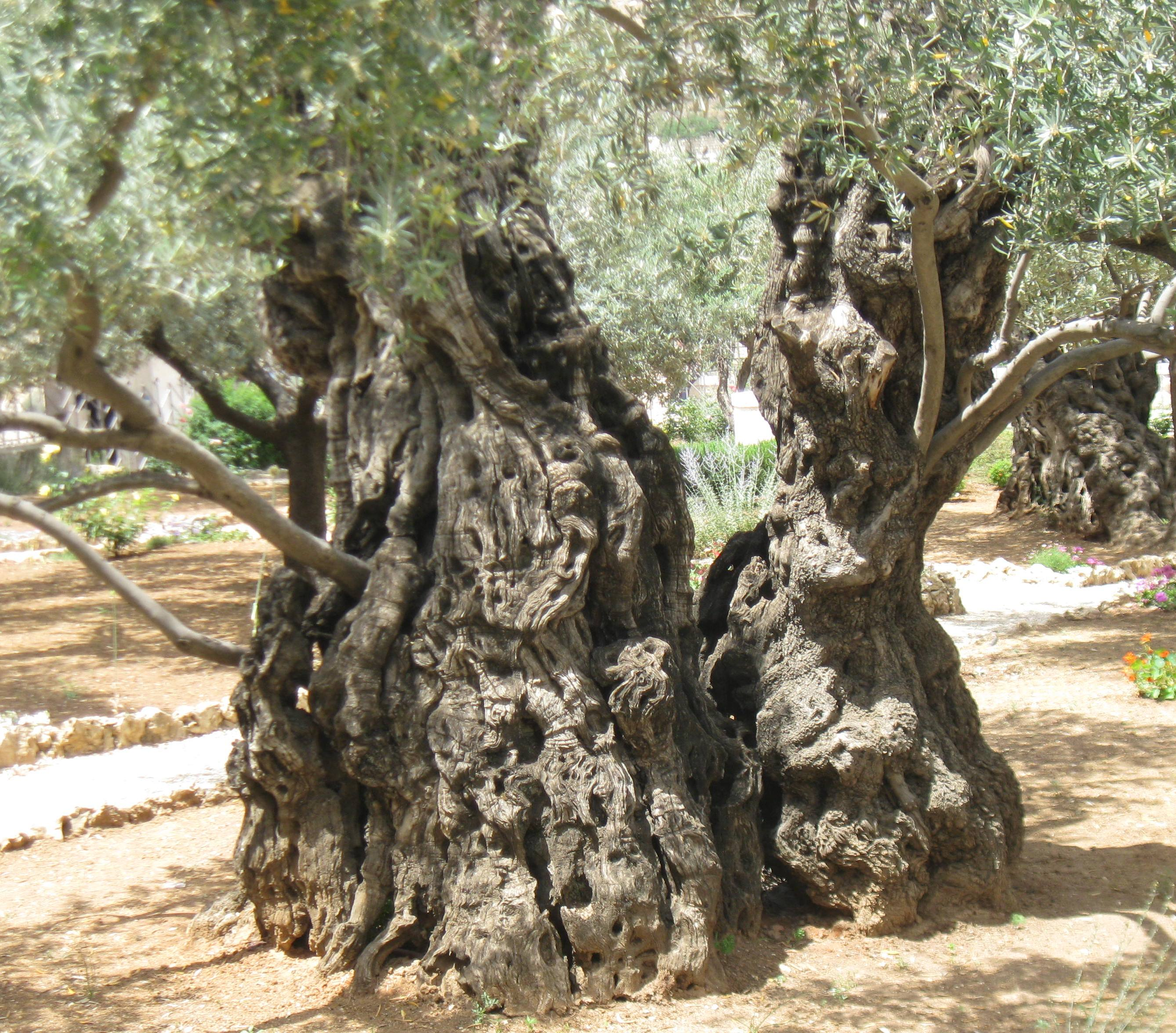 Elderly olives